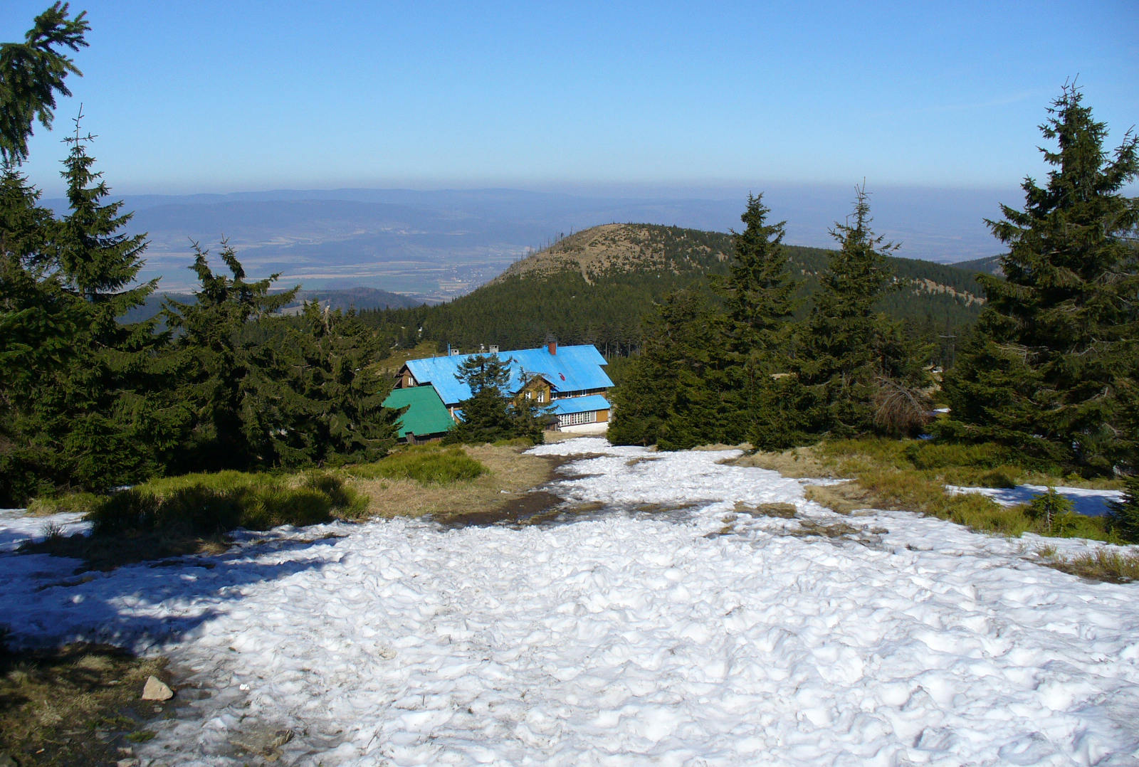 Polish mountain hostel in Śnieżnik (Glatzer Schneeberg); view towards the Kłodzko Valley, Lower Silesian Voivodeship, Poland.